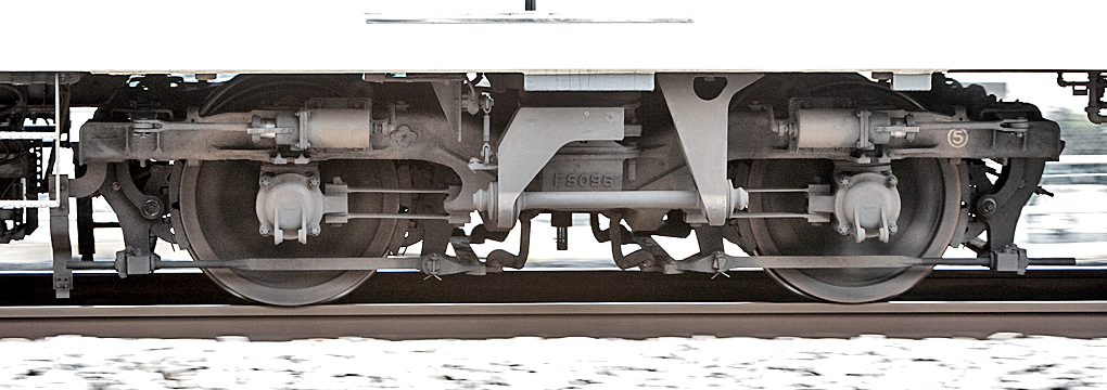 Sumitomo Metal Industries type FS-096 bogie truck of Tobu Railway 8000 series EMU ( Kuha 84114 )